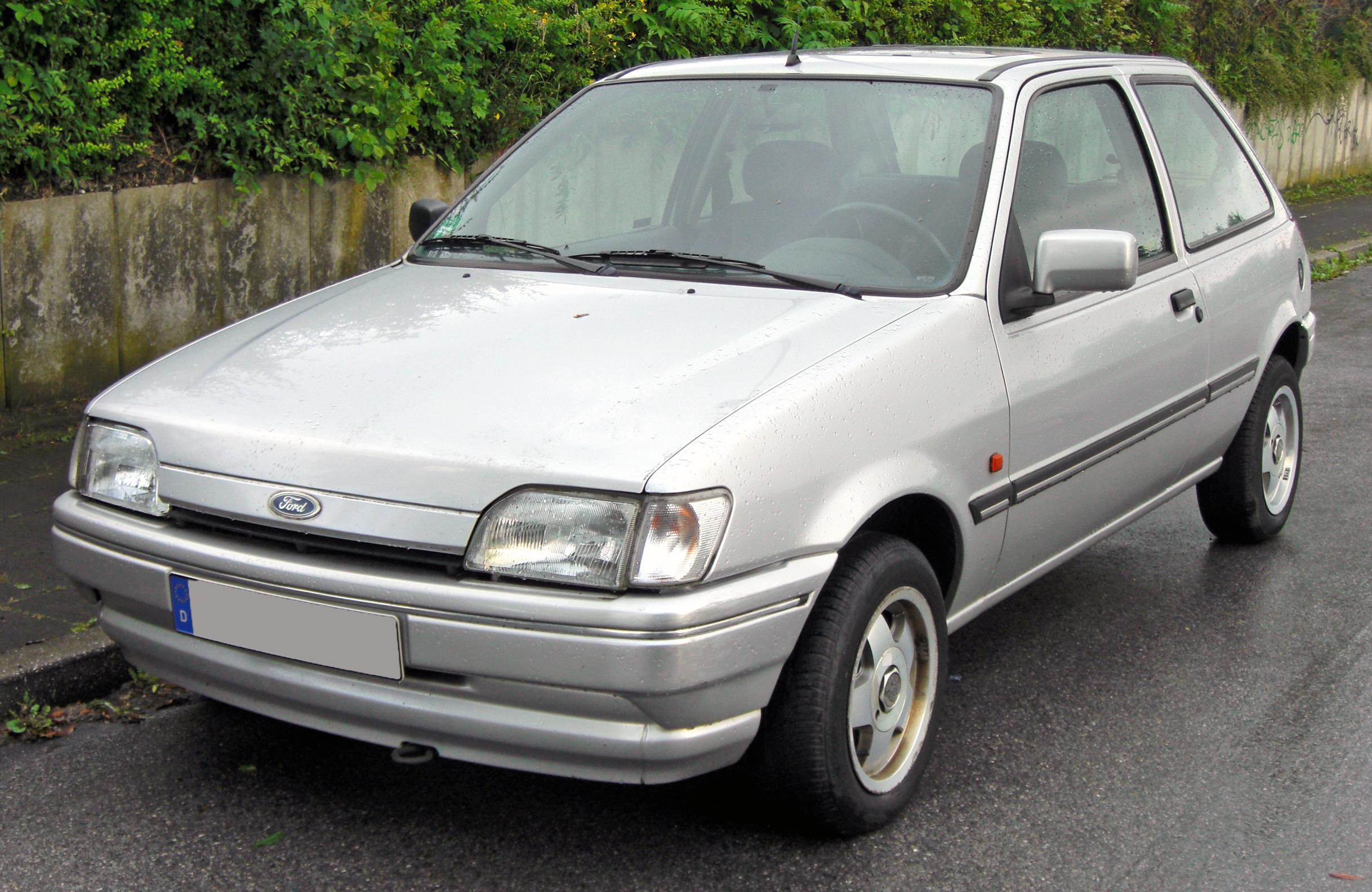 Ford Fiesta III